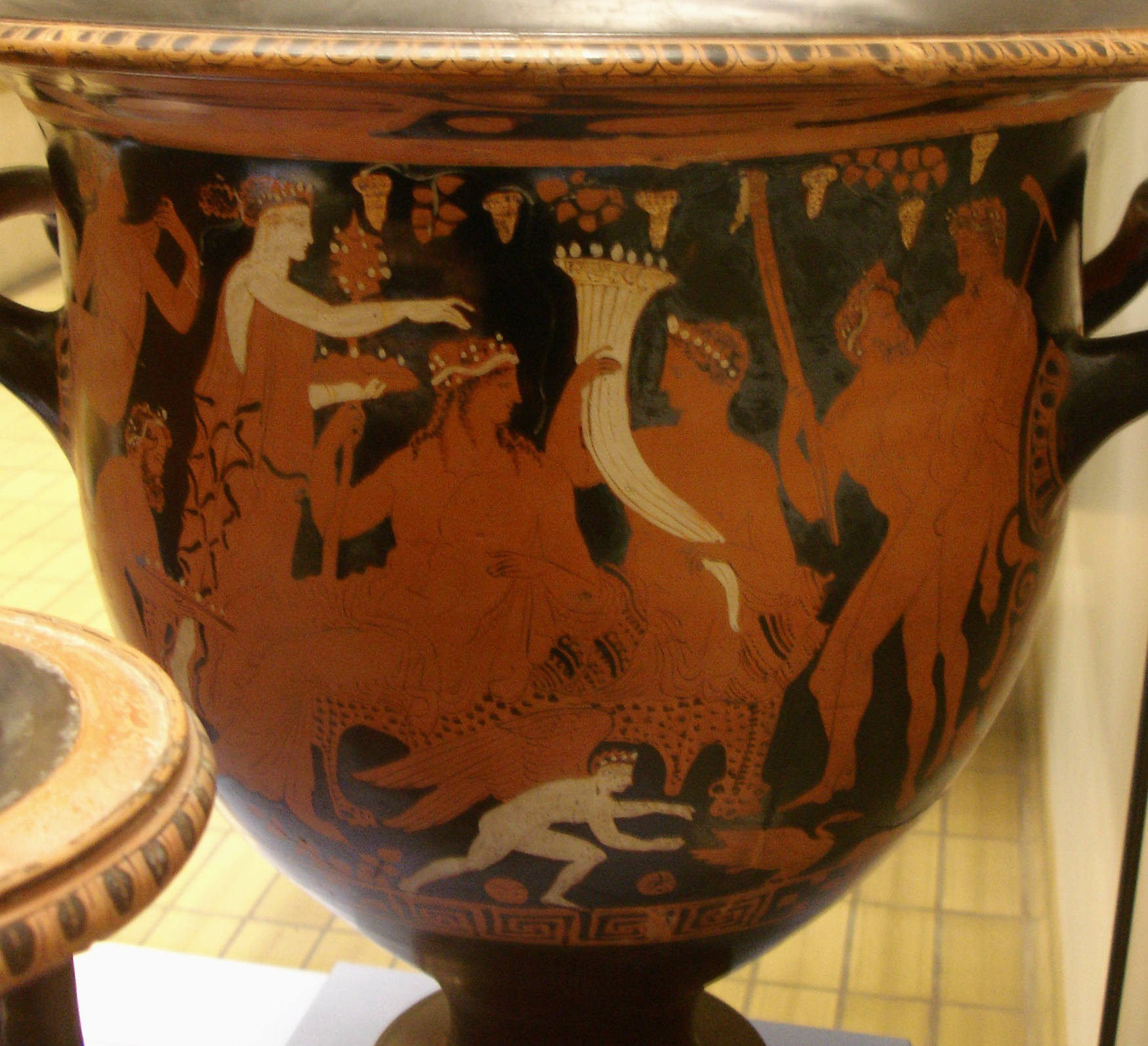 Dionysos (sitting left, at the end of the couch) and Ploutos (sitting right, holding a cornucopia) surrounded by satyrs and maenads. A satyr is helping and supporting a drunken Hephaistos with his hammer (right). Eros plays with a goose at the bottom. Attic red-figured krater, ca. 370–360 BC. Said to be from S. Agata dei Goti (Campania).